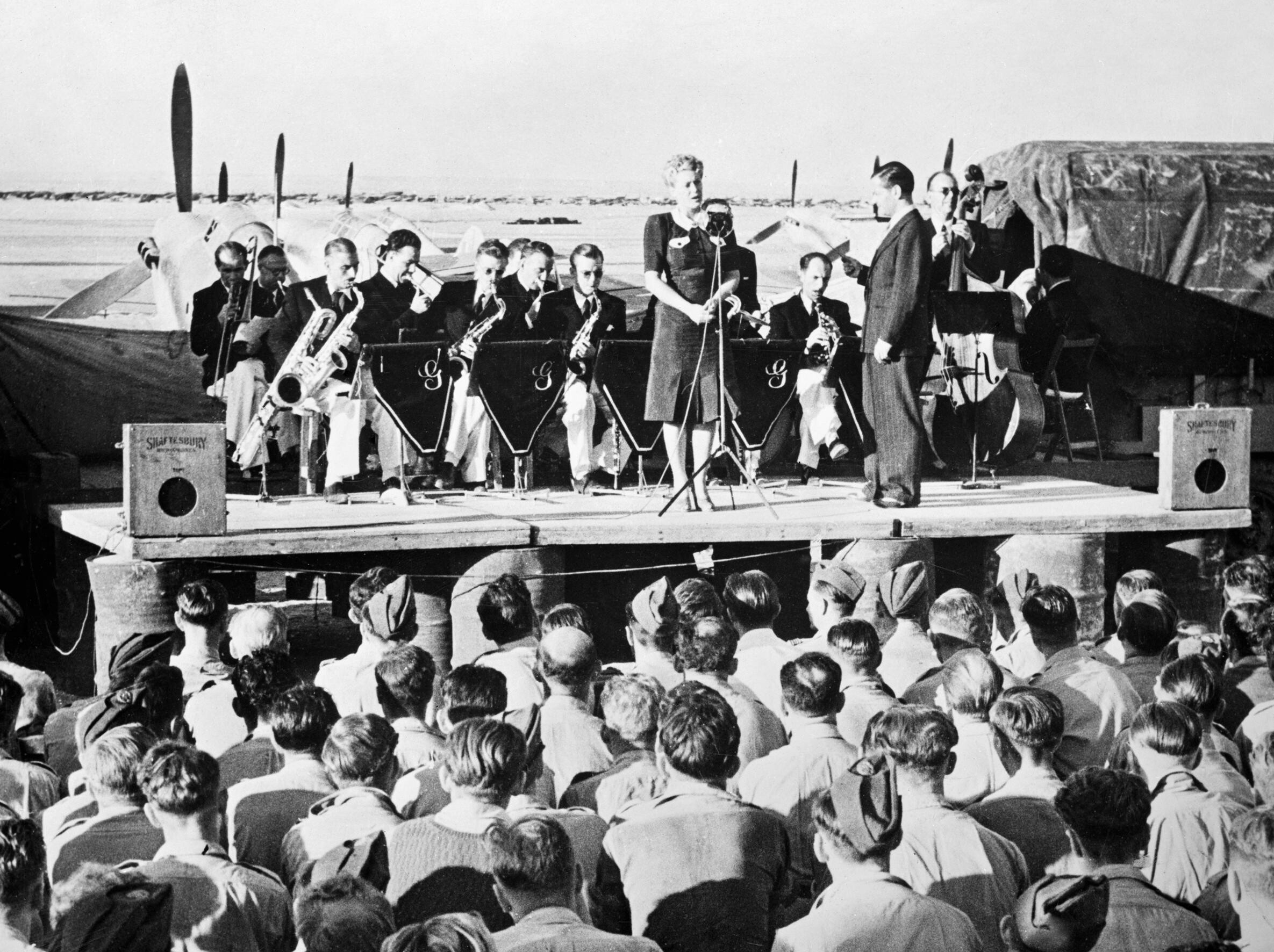 Geraldo and his orchestra, fronted by the singer Dorothy Carless, entertain airmen at an airfield in North Africa, 1943. Geraldo and his orchestra, fronted by the singer Dorothy Carless, entertain airmen from a stage consisting of boards resting on empty oil drums, at an airfield in North Africa. A three-ton truck, the rear of which can be seen just behind the stage on the far right, was the artistes' dressing room.